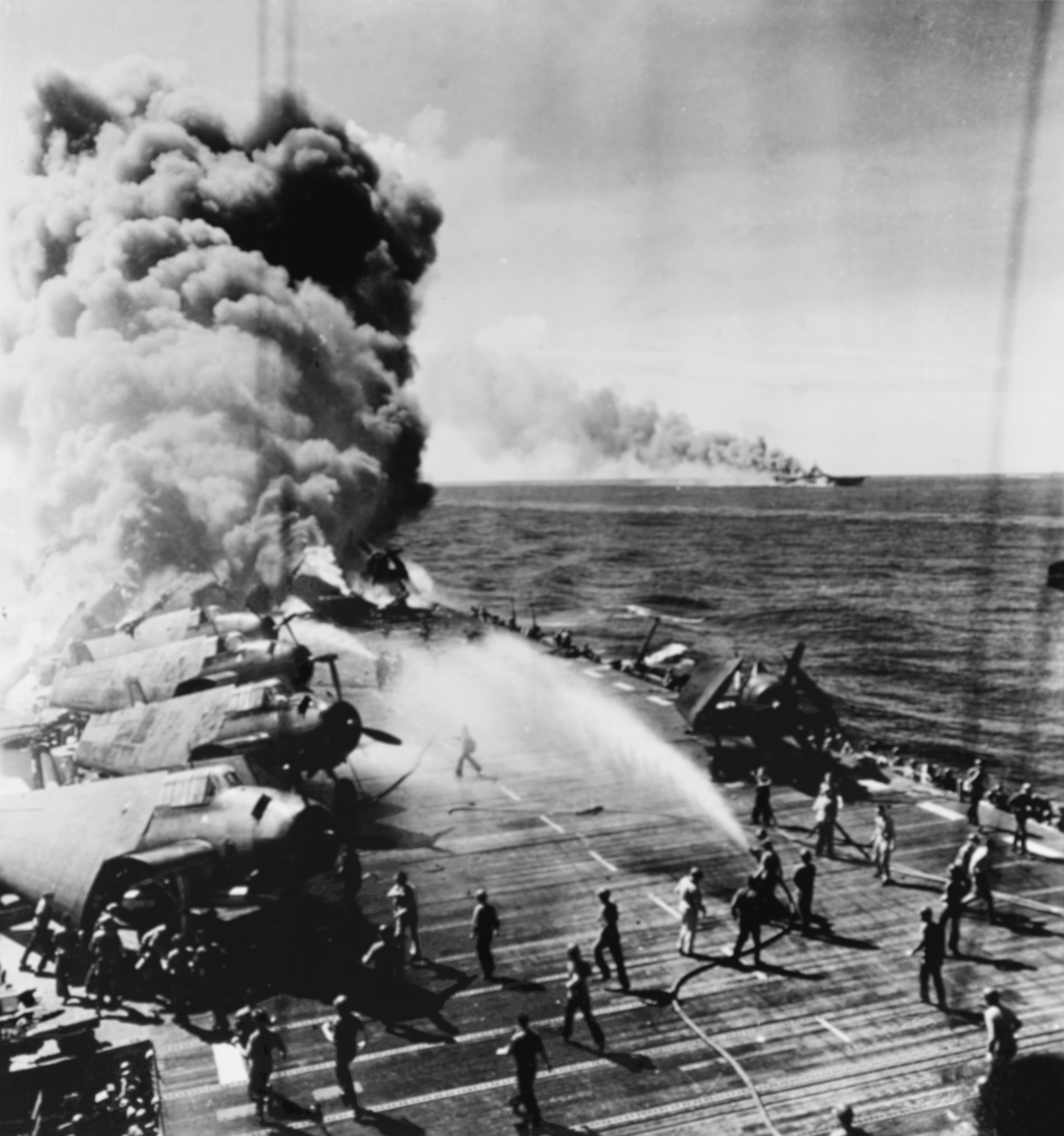 The U.S. Navy light aircraft carrier USS Belleau Wood (CVL-24) burning aft after she was hit by a Kamikaze, while operating off Luzon, Philippines, on 30 October 1944. Flight deck crewmen are moving undamaged Grumman TBM Avenger planes of Torpedo Squadron 21 (VT-21) away from the flames as others fight the fires. USS Franklin (CV-13), also hit during this Kamikaze attack, is afire in the distance.